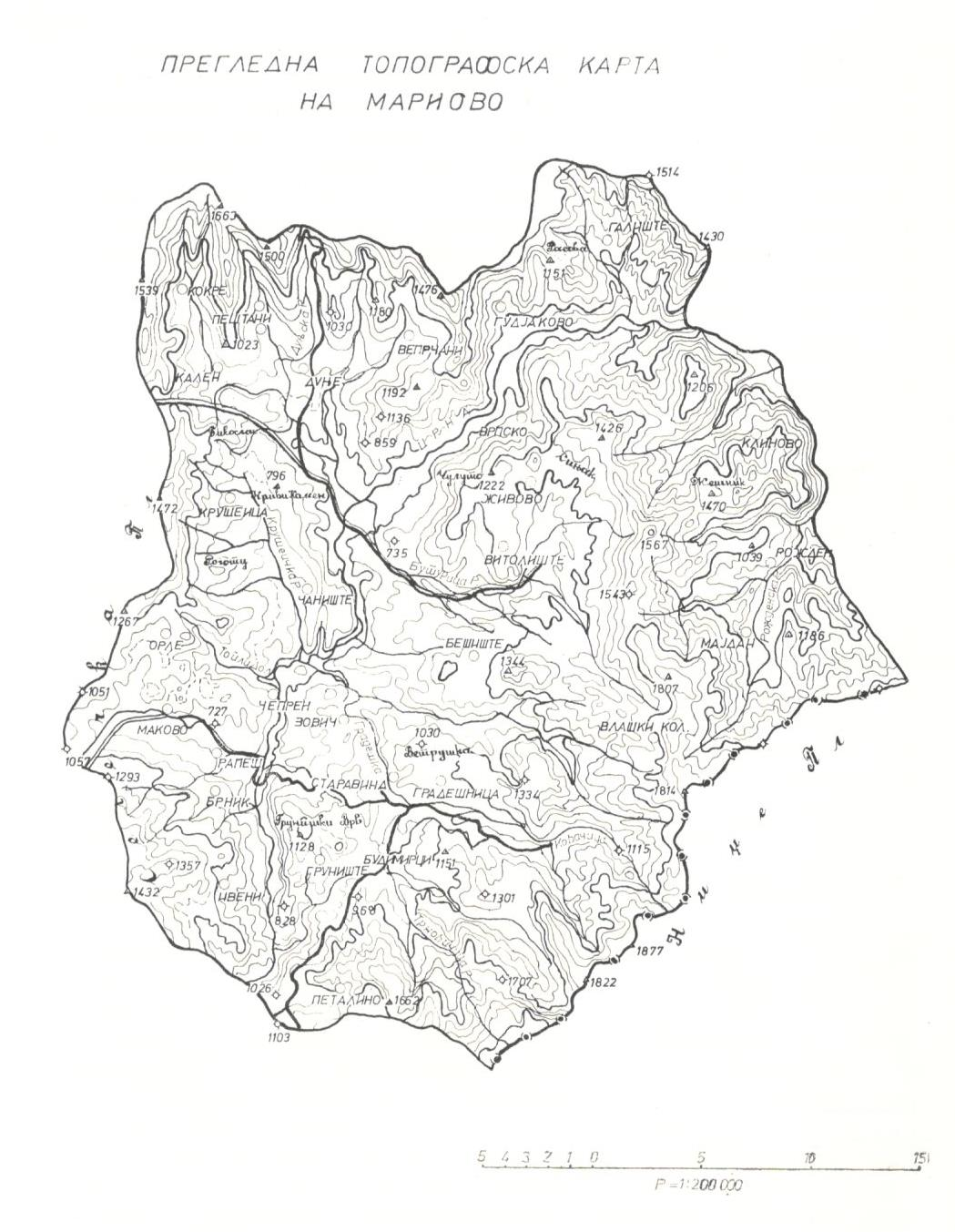 Topographic map of Mariovo